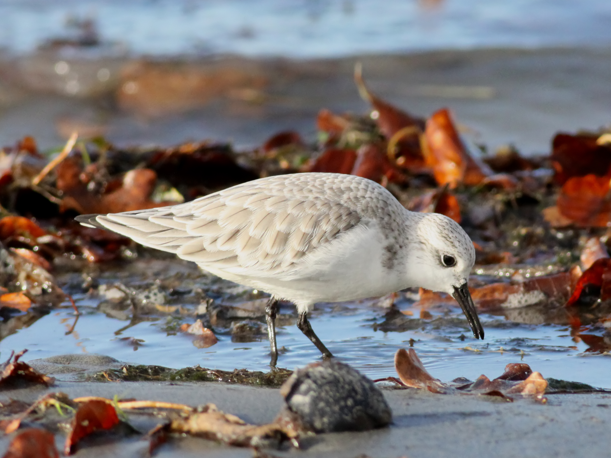 Sanderling (Calidris alba) Photo taken on the Rheindamm, Vorarlberg, Austria on 13-11-2010